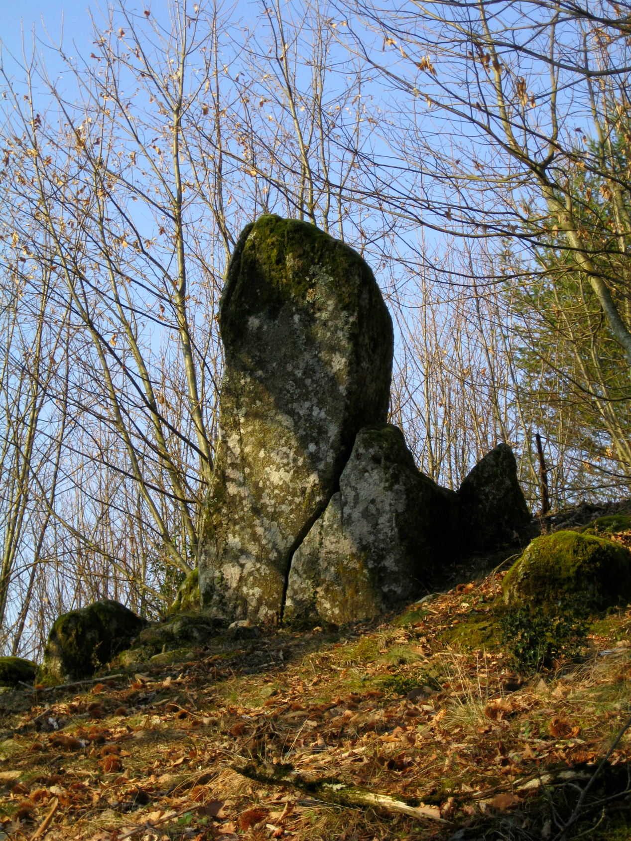 The so called menhir from Peyrusse or from Peyreficade is located 500 meters at the est of the village Saint-Jean-Lagineste in France. It's a large upright standing stone (more than 2 meters height).